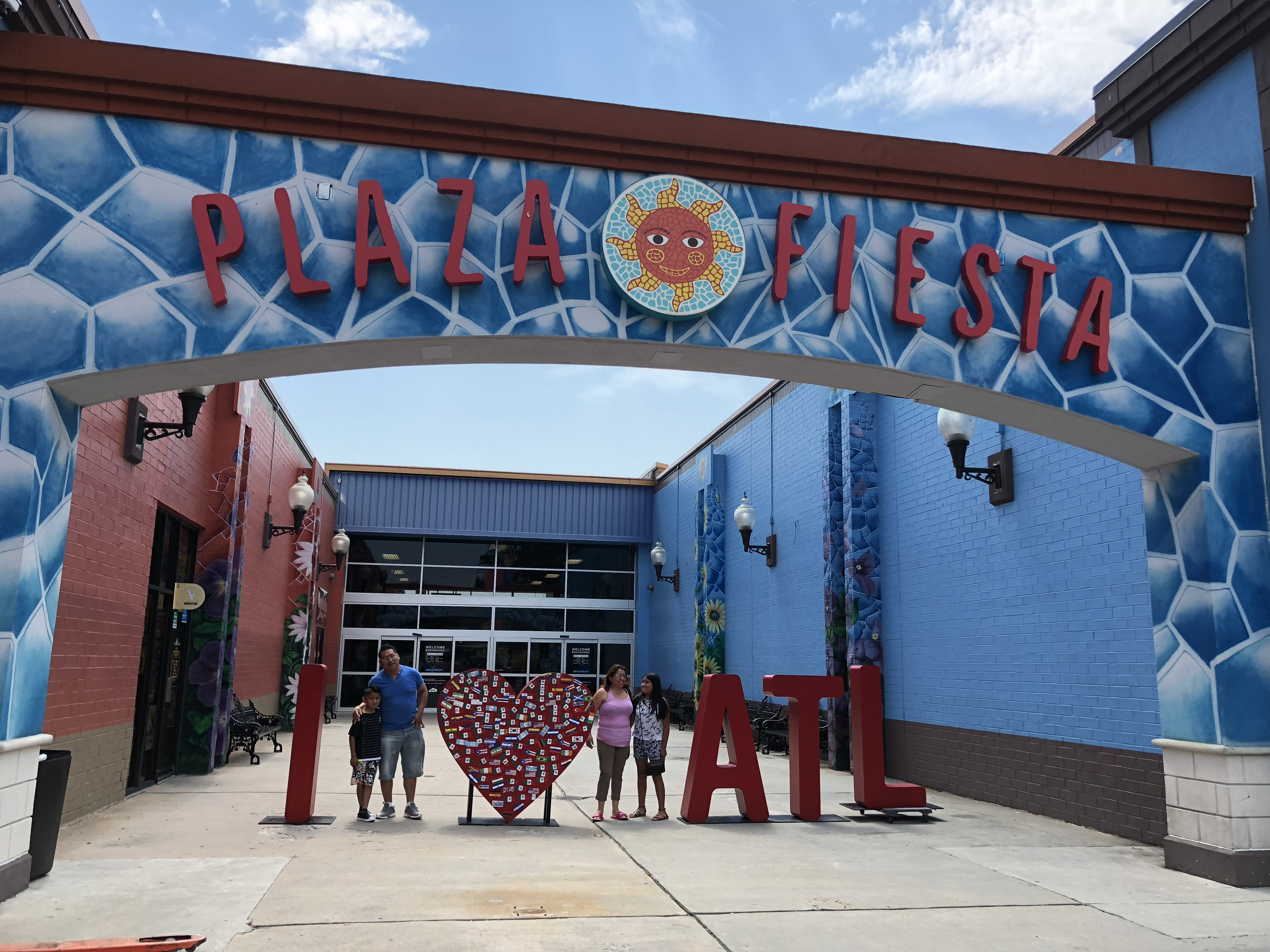 Entrance arch for Plaza Fiesta